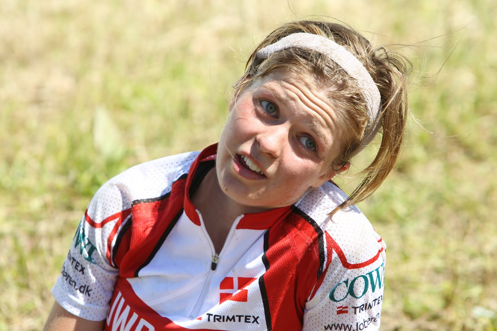 Ida Bobach after finishing on Long distance, JWOC 2010.